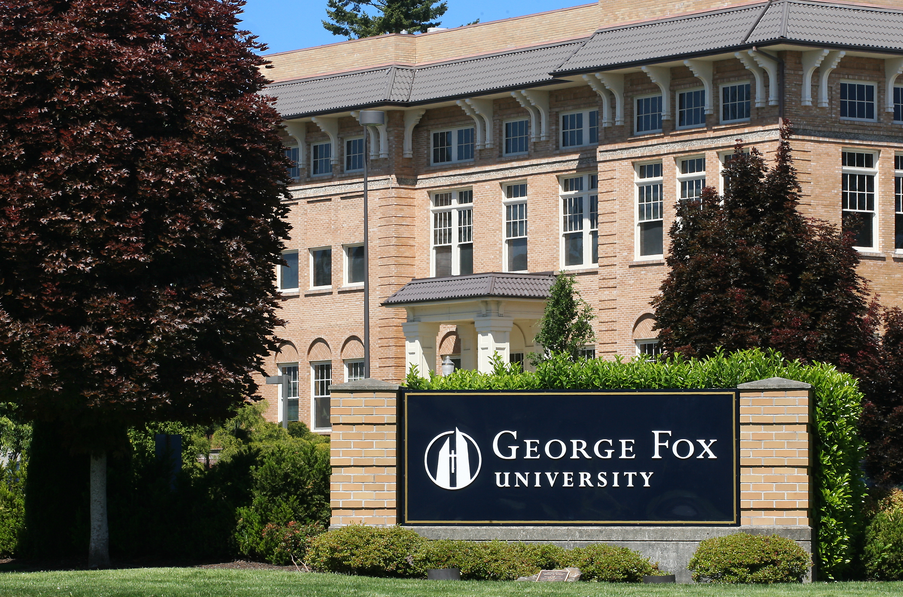 George Fox University Newberg Campus